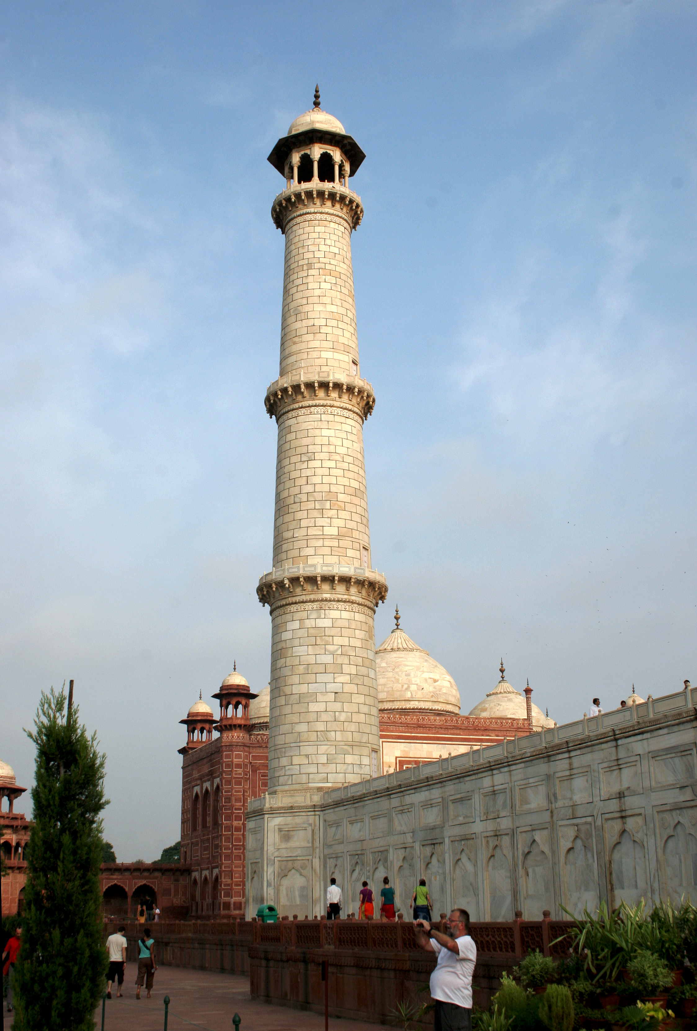 One of four corner minarets at the Taj Mahal in Agra, India.